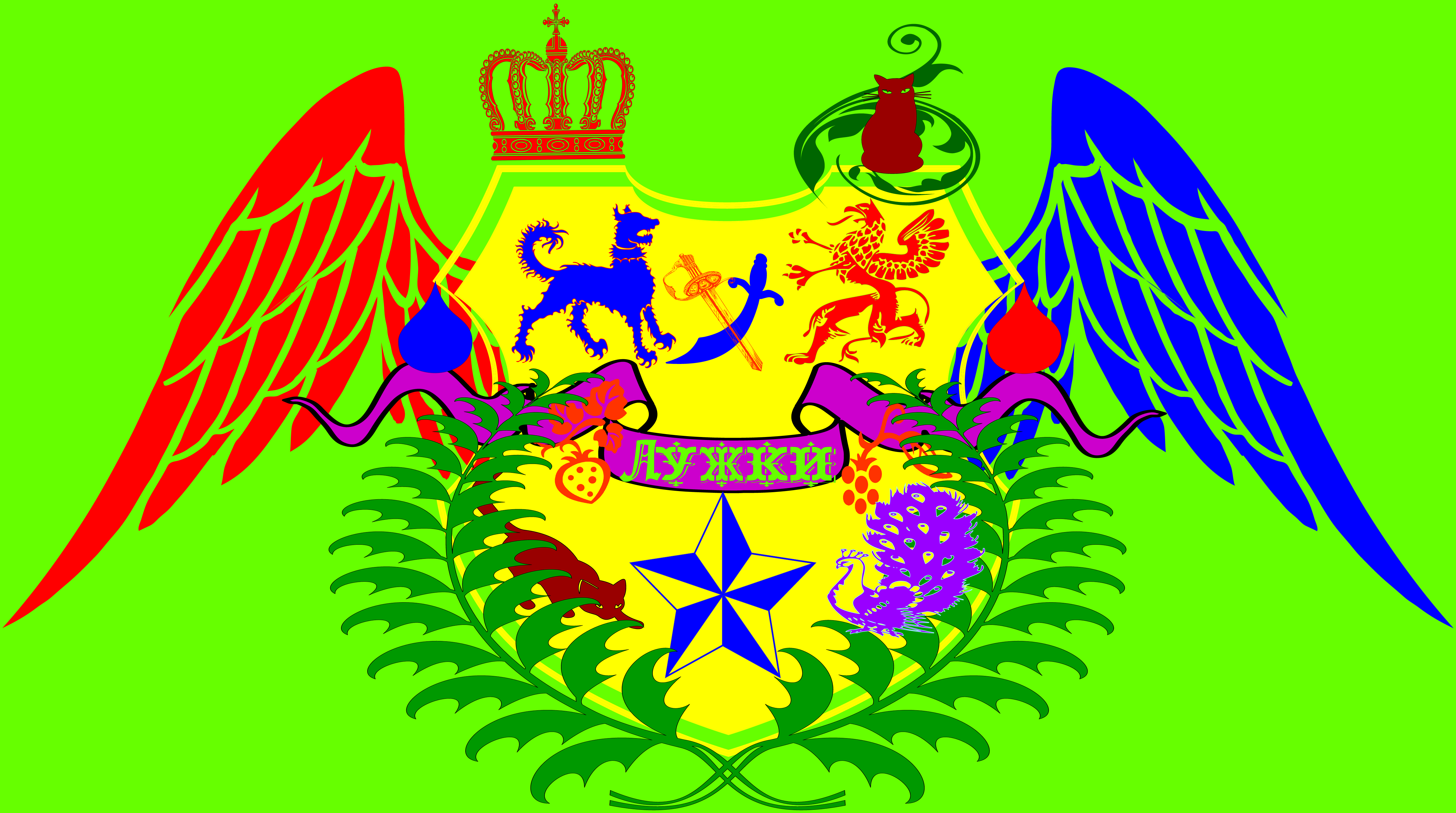 герб деревни Лужки